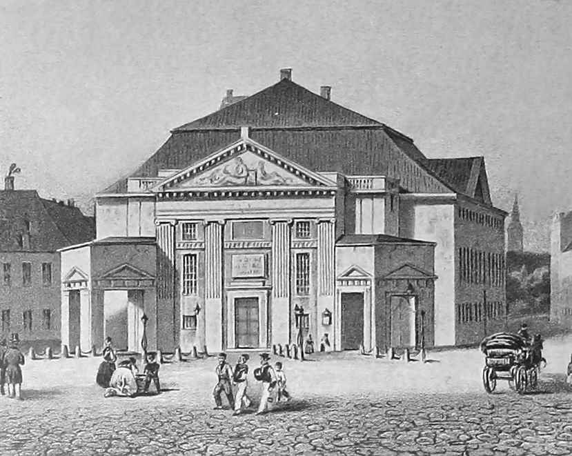 Royal Danish Theatre. The drawing is not dated, but the appearance of the building puts it between 1837 and 1855.